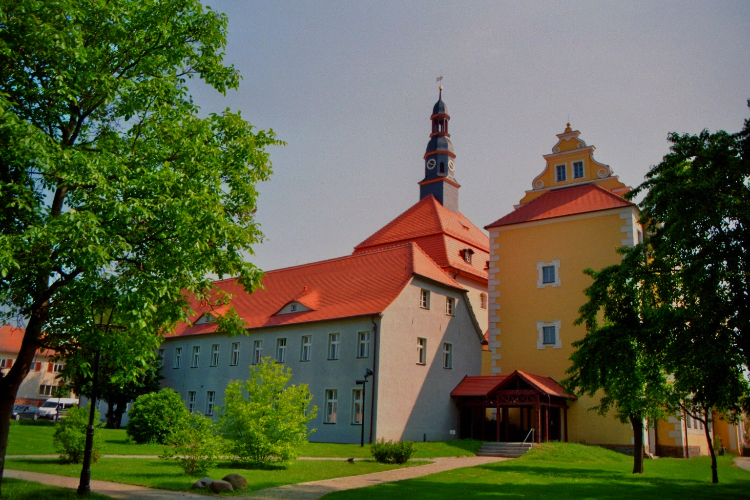 Lübben Castle in Lübben, Landkreis Dahme-Spreewald, Brandenburg, Germany.